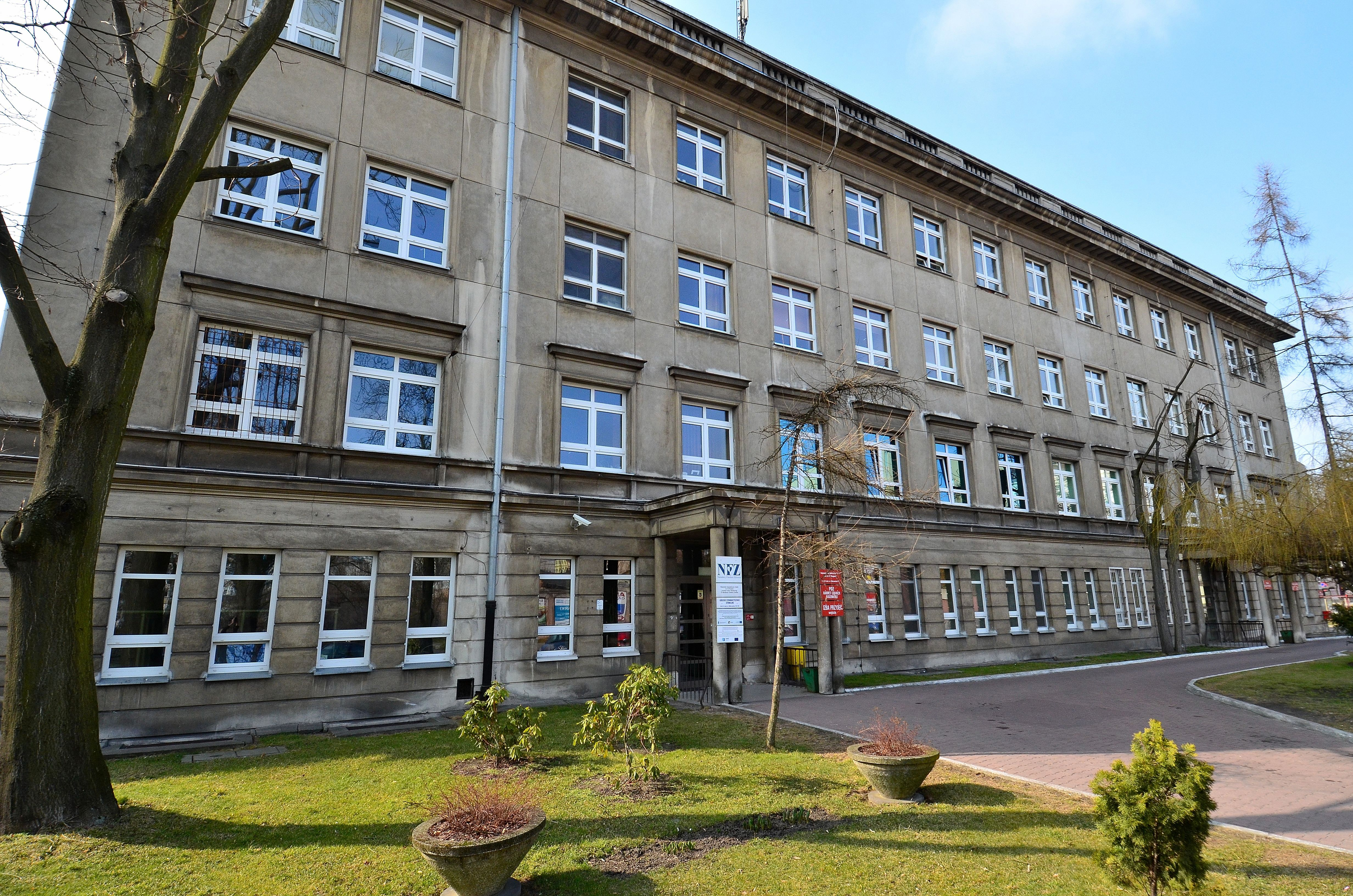 Nikolay Pirogov Specilized Distirict Hospital at 191/195 Wólczańska Street in Łódź